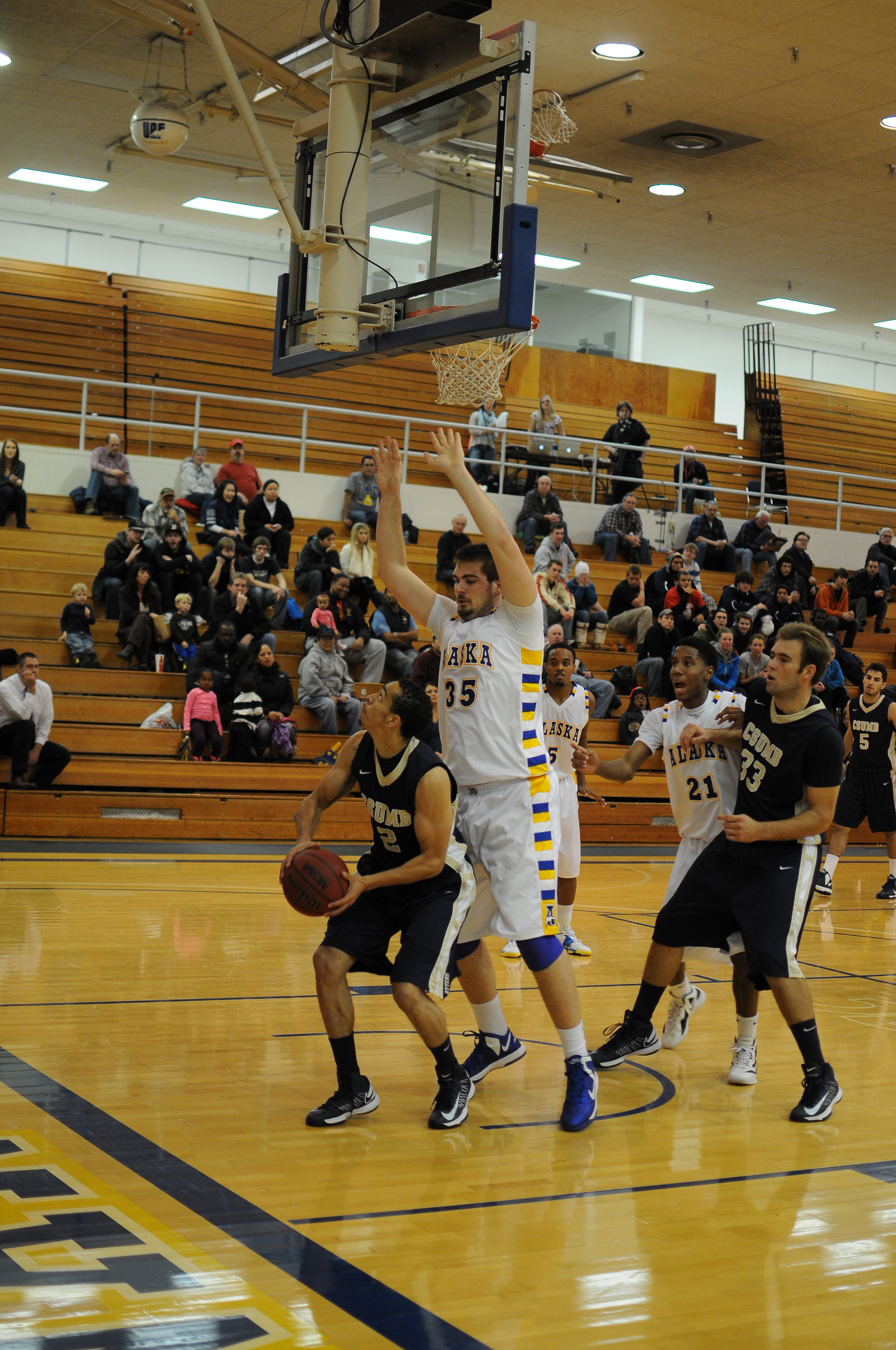 "The Alaska Nanooks host the Colorado Christian Cougars, Oklahoma Panhandle Aggies and the Cal State Monterey Bay Otters in NCAA Division II men's basketball action."